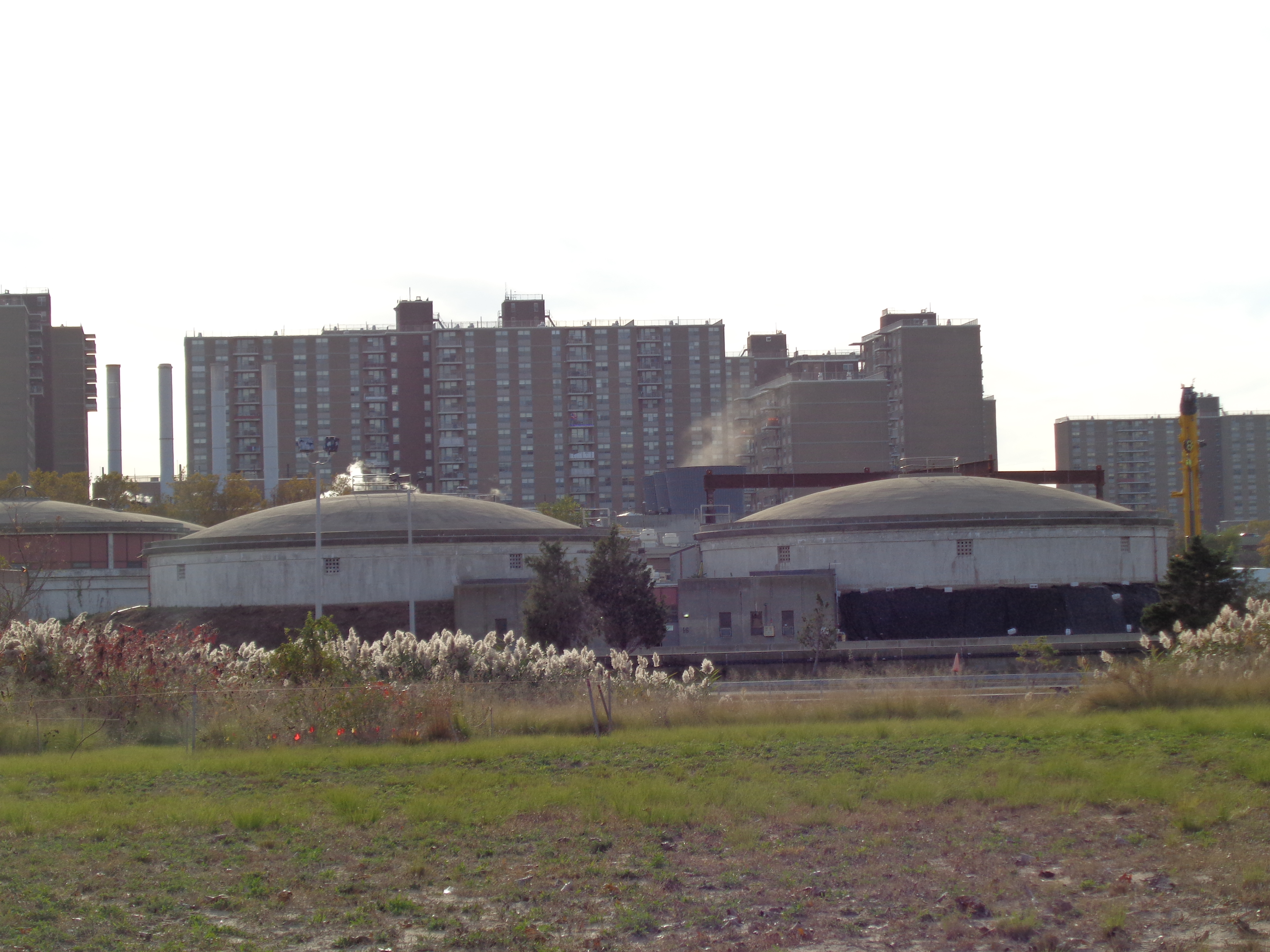 Looking at the 26th Ward Water Pollution Control Plant in Starrett City, from Spring Creek Park near Gateway Center mall in Spring Creek, Brooklyn.